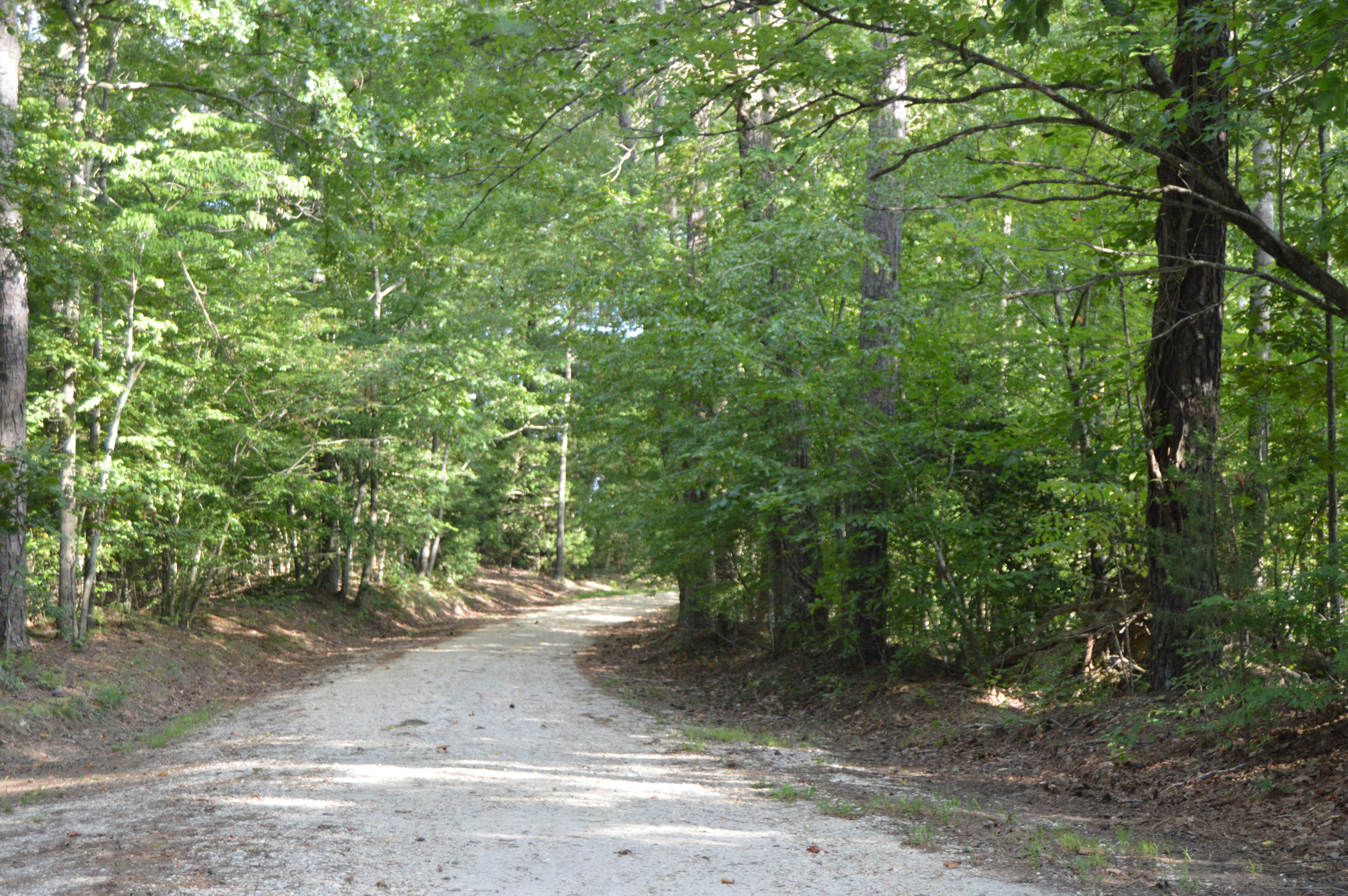 Entrance to the Farmington estate, located off State Route 14 just southeast of St. Stephens Church in King and Queen County, Virginia, United States. The property is listed on the National Register of Historic Places.